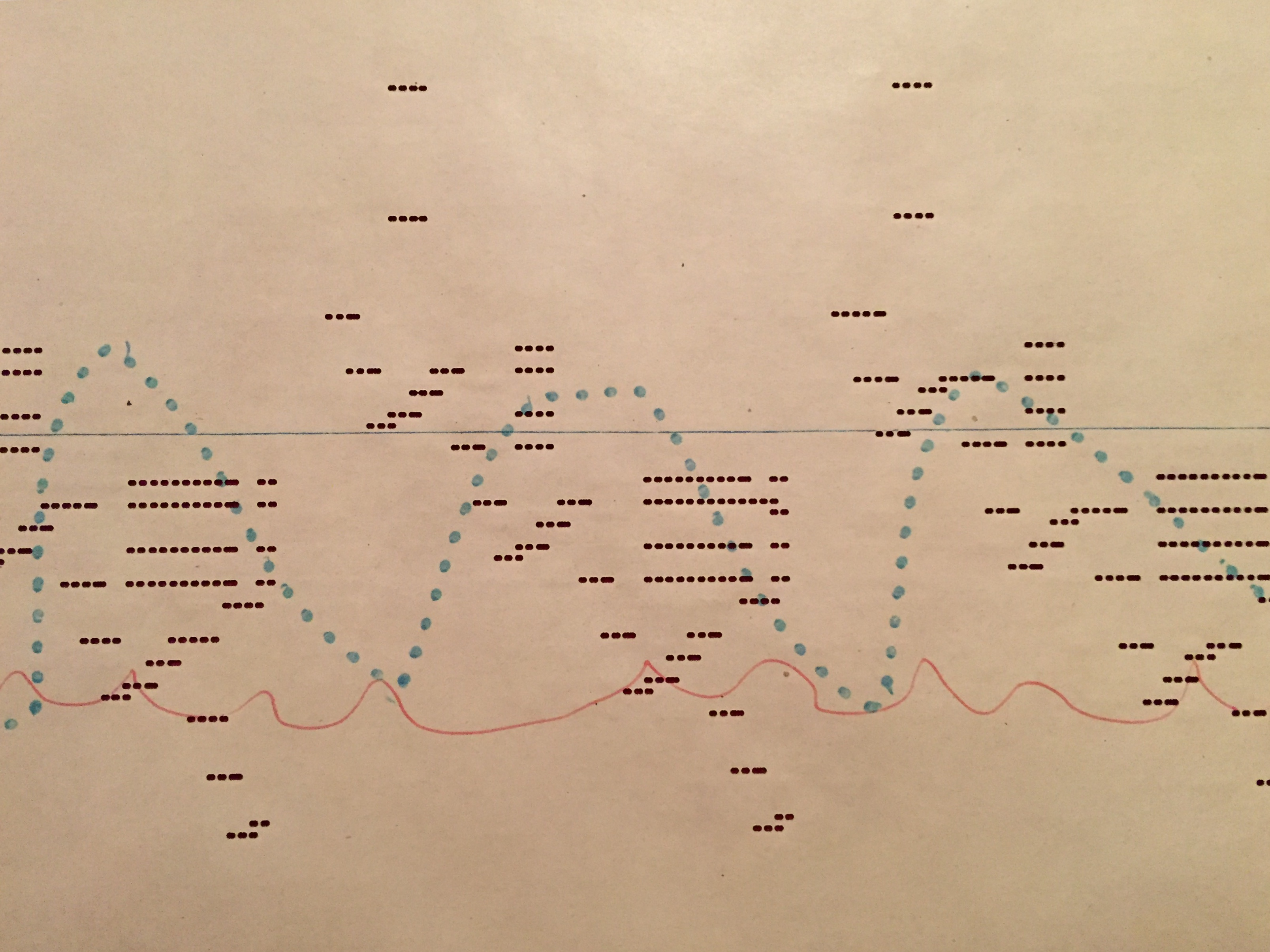 Detail of a piano roll